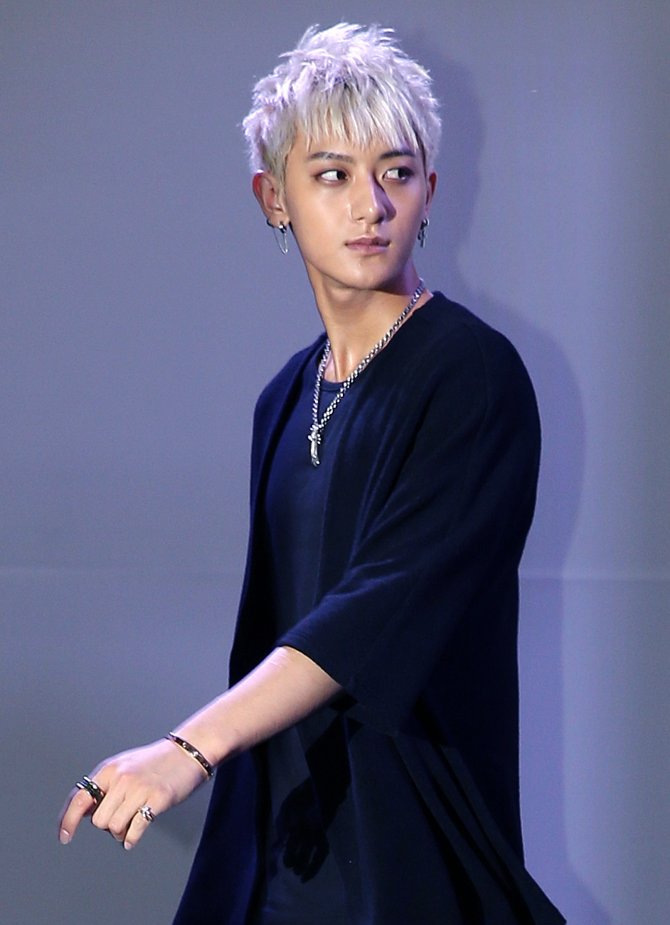 Tao Huang at the Fashion Kode on July 16, 2014.